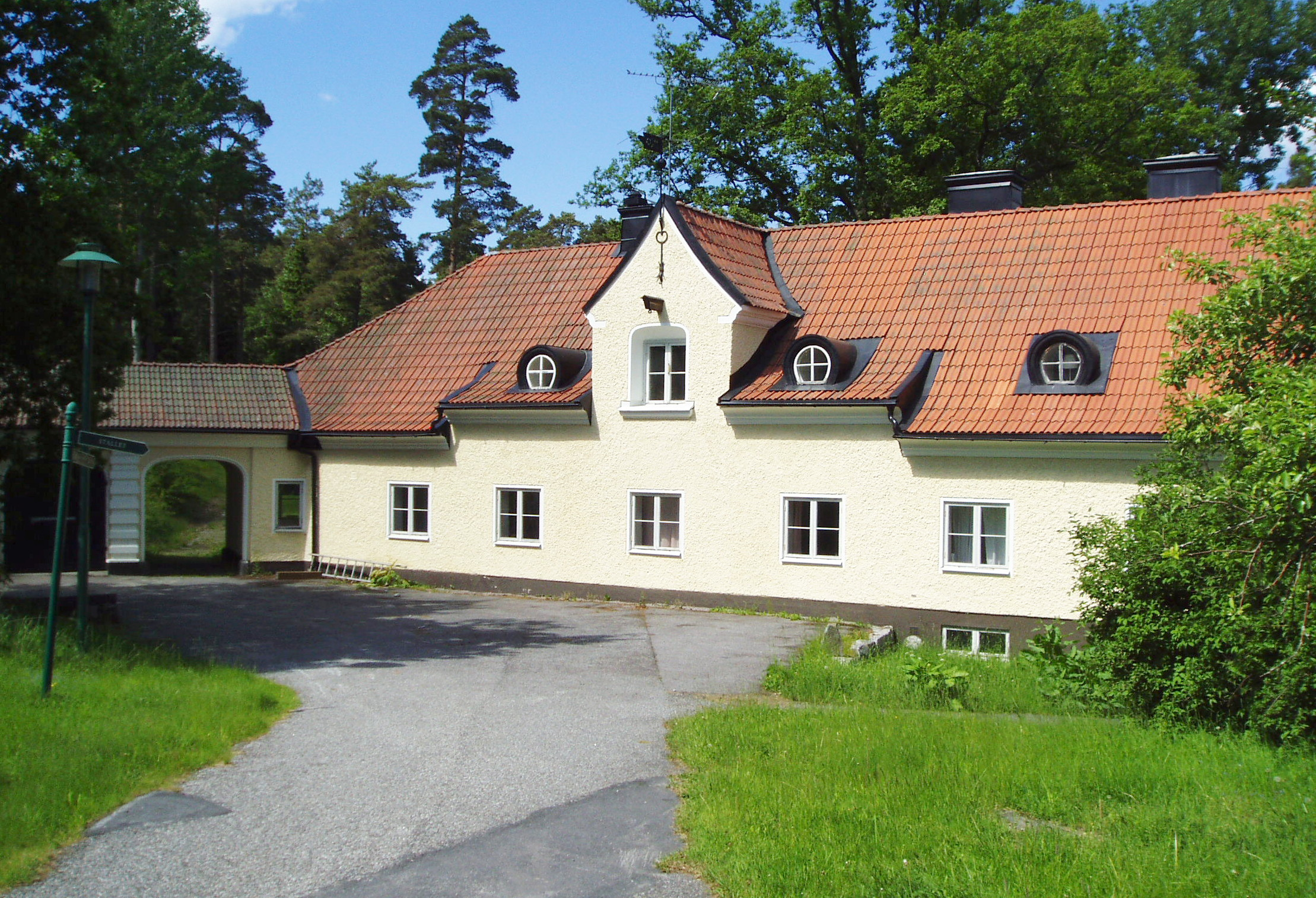 Graninge mansion, Nacka municipality, Sweden